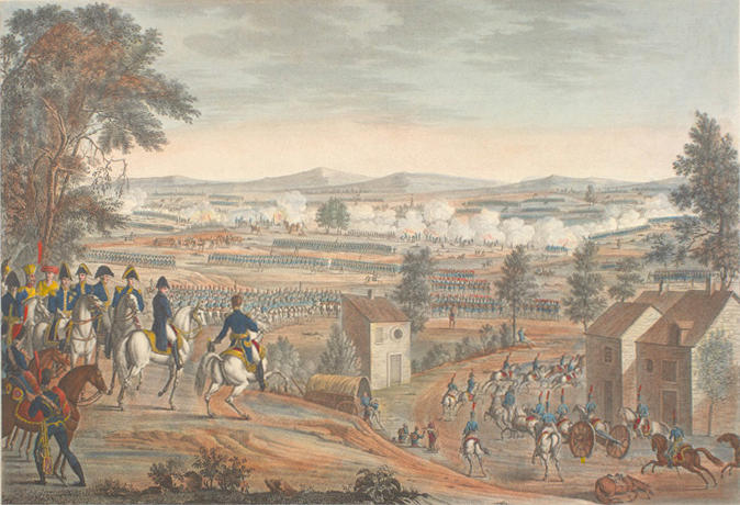 Battle of Lutzen (1813). Napoleon on his white horse looks at the battlefield. Hand-coloured engraving from Pennington Catalogue p. 1327.